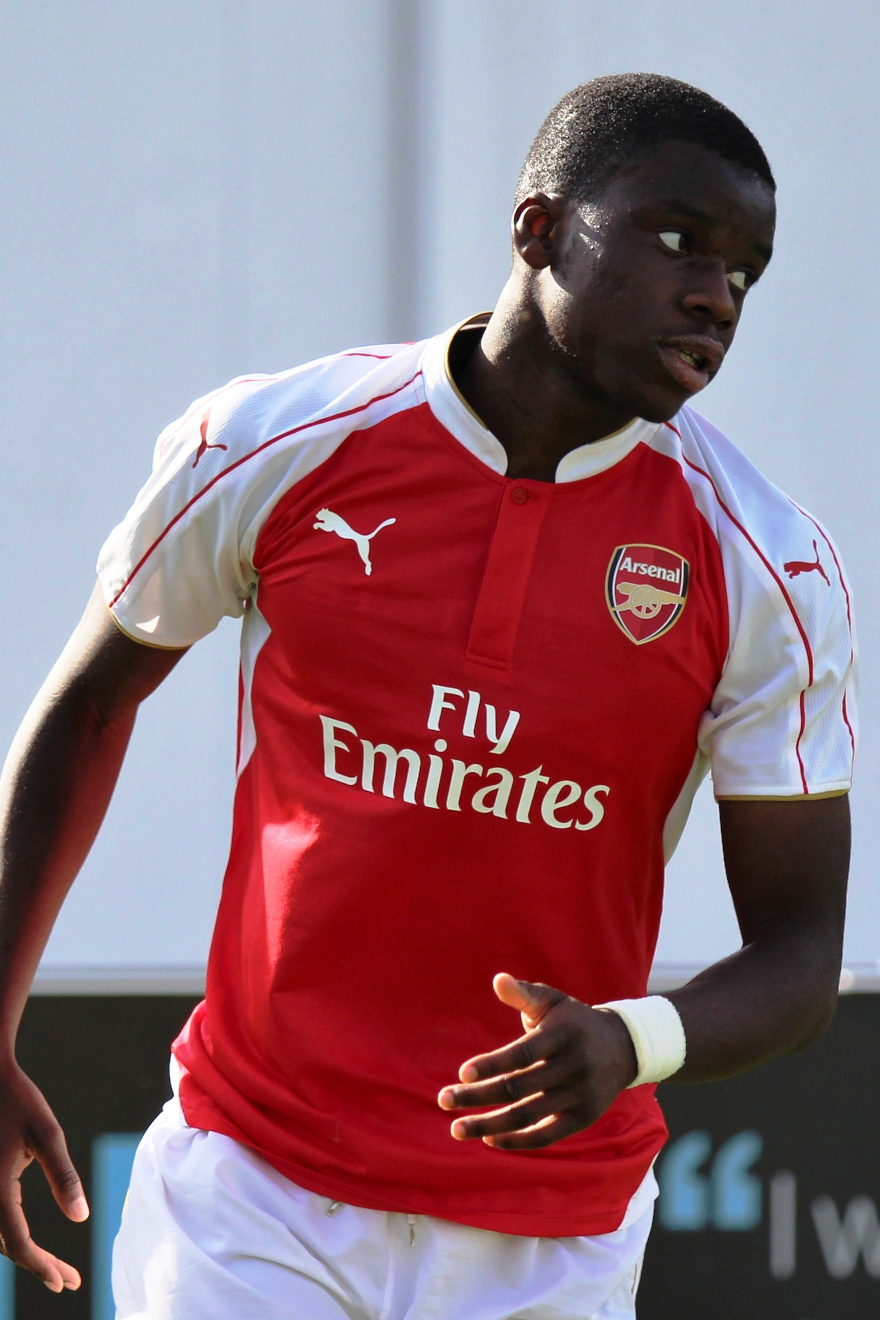 Stephy Mavididi of Arsenal U19s during the game against Olympiacos.